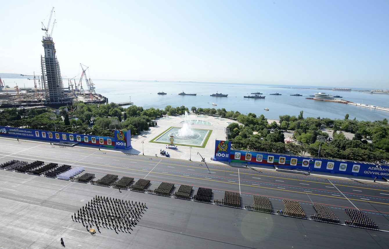 A solemn military parade has been held in Baku to mark the centenary of the establishment of the Armed Forces of the Republic of Azerbaijan.